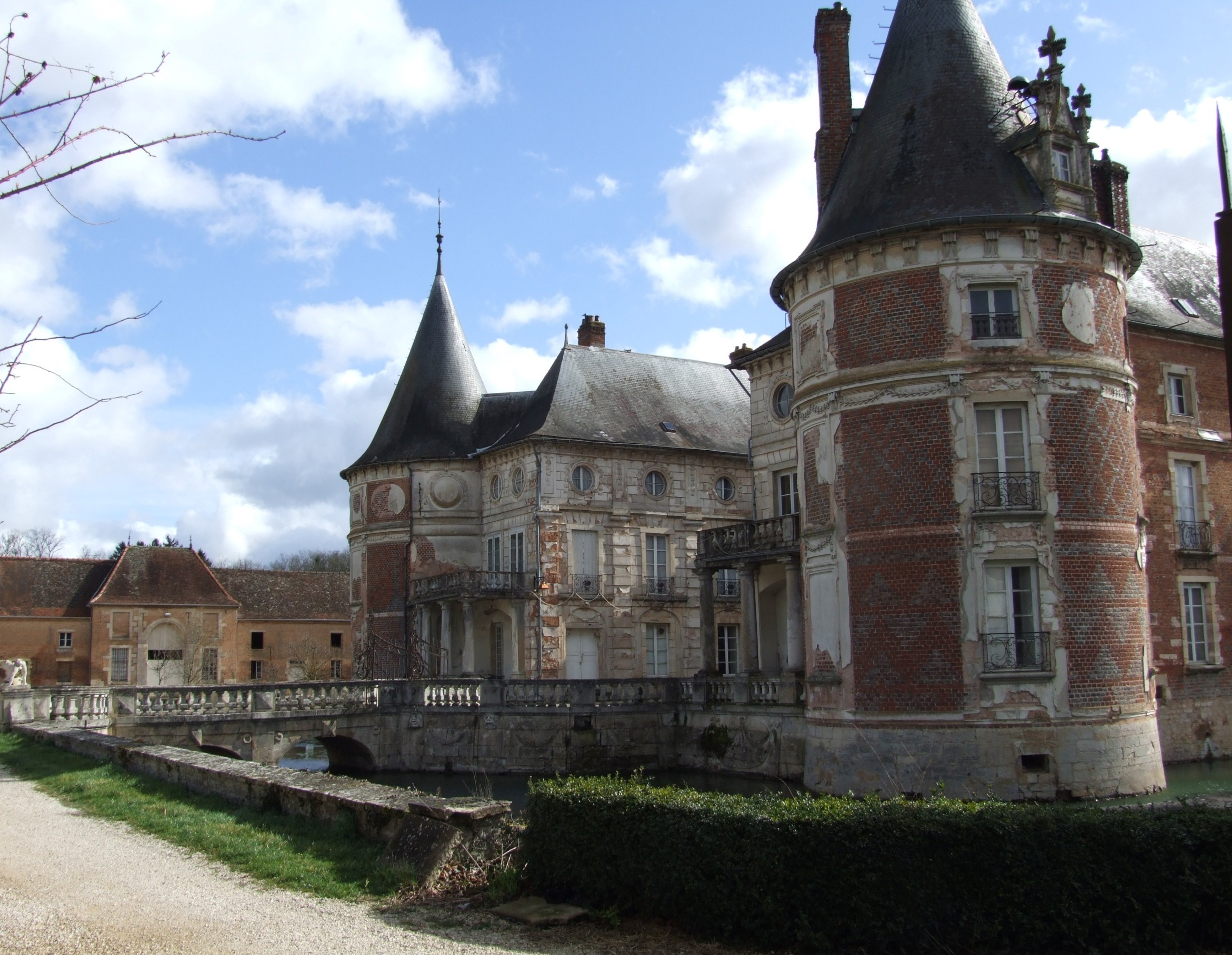 Longecourt-en-Plaine, Burgundy, FRANCE